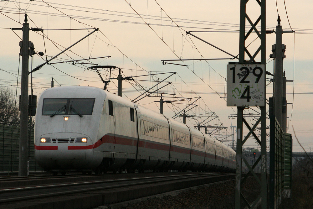 An ICE 1 on the Hannover-Berlin high-speed railway line, near Wustermark